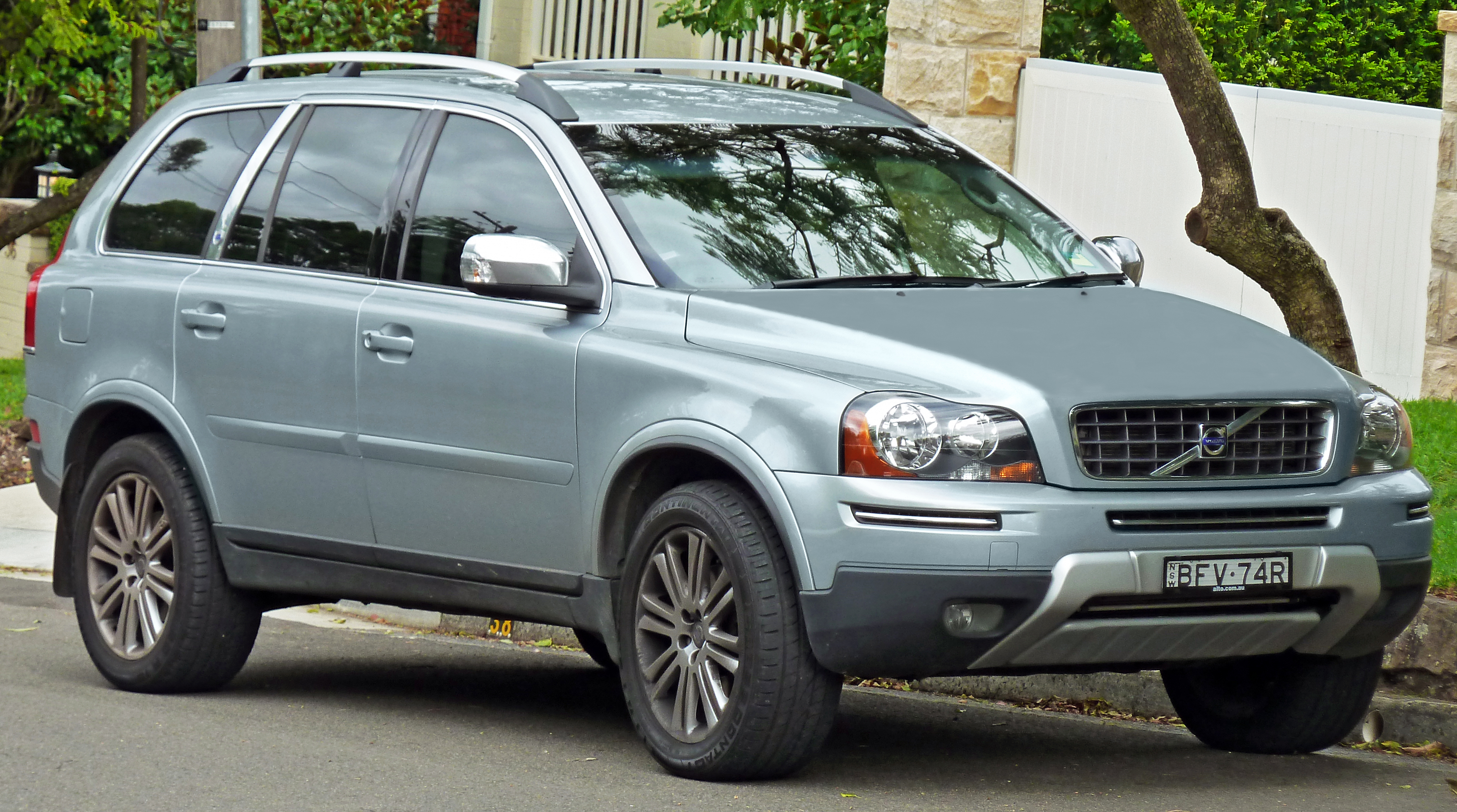 2008 Volvo XC90 (P28 MY08) LE 3.2 wagon. Photographed in Lindfield, New South Wales, Australia.